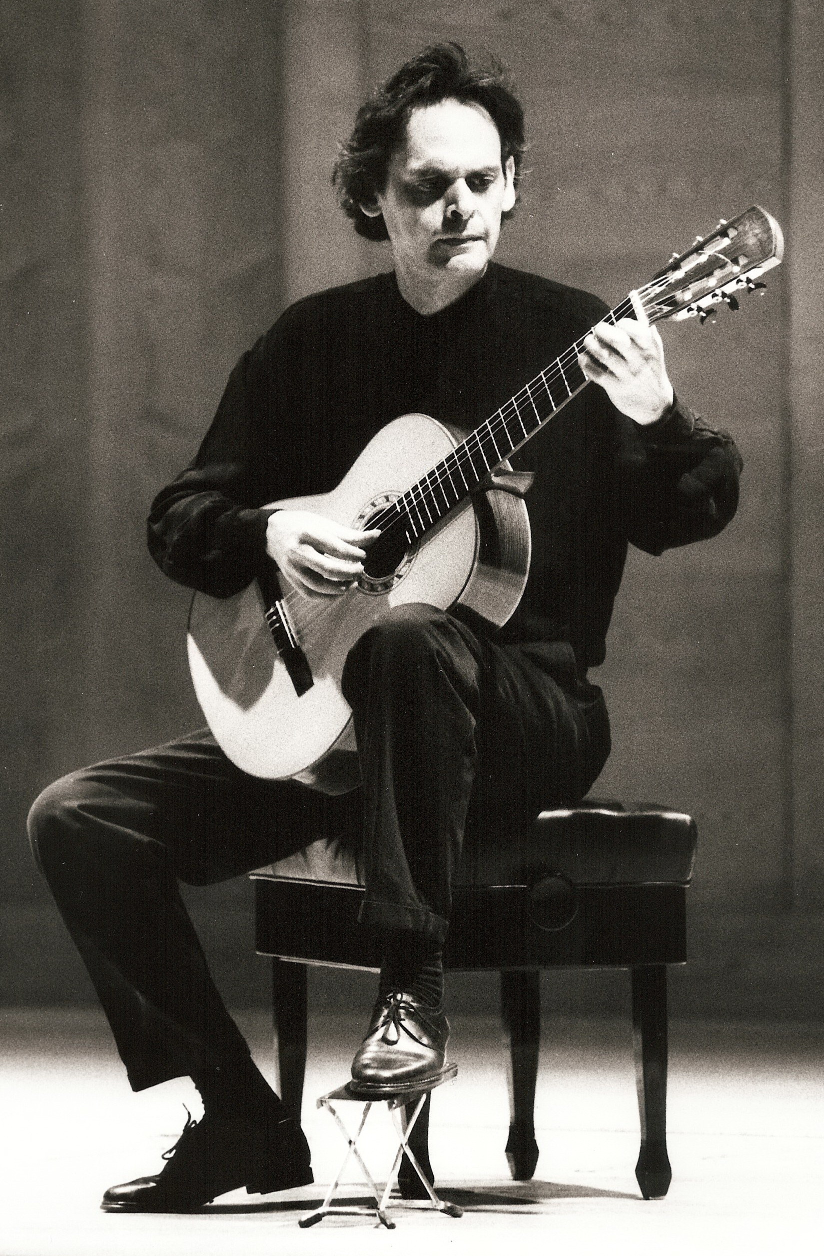 The guitarist Roland Dyens in concert, Munich 8.April 2000